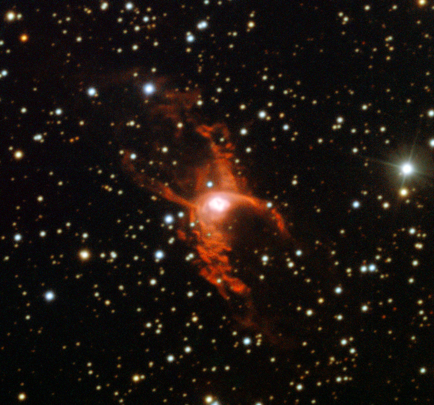 This image shows an example of a bipolar planetary nebula known as NGC 6537 taken with the New Technology Telescope at ESO’s La Silla Observatory. The shape, reminiscent of a butterfly or an hourglass, was formed as a Sun-like star approached the end of its life and puffed its outer layers into the surrounding space. For bipolar nebulae, this material is funnelled towards the poles of the ageing star, creating the distinctive double-lobed structure. Observations using the NTT and Hubble have found that bipolar planetary nebulae located towards the central bulge of our Milky Way appear to be strangely aligned in the sky — a surprising result given their varied and chaotic formation. NGC 6537, which lies much closer to the Earth, was not part of the new study.